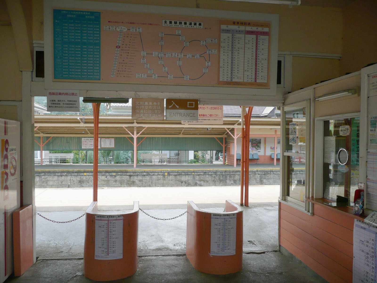 Yamuramachi Station ticket gate